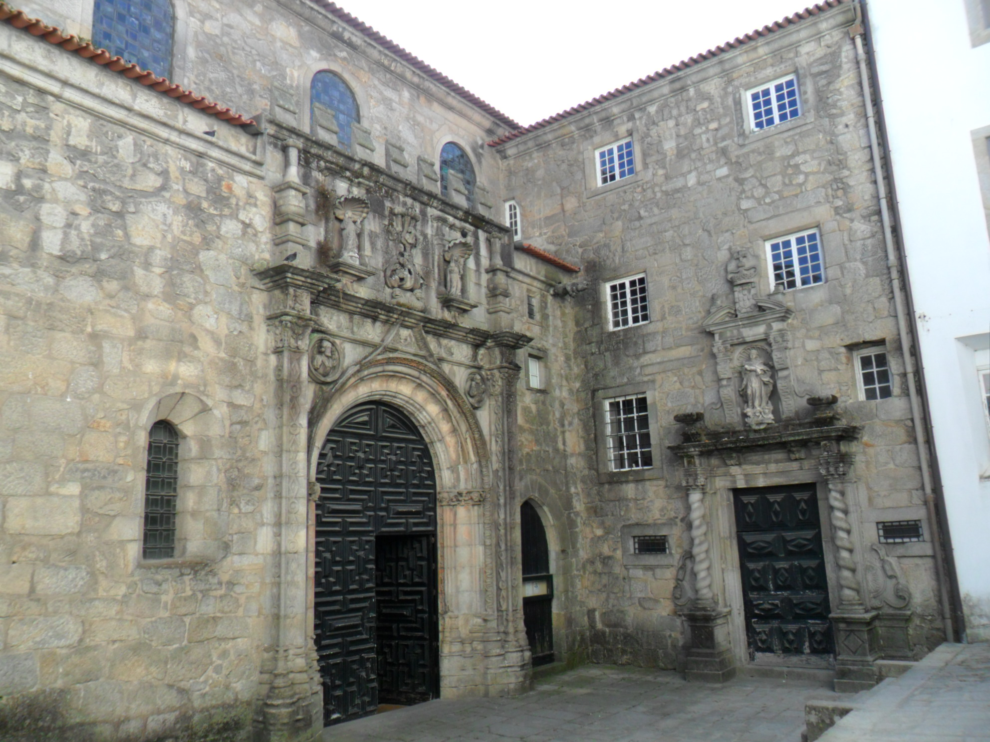 This file was uploaded for Wiki Loves Monuments in Portugal with the unique identifier 70198.